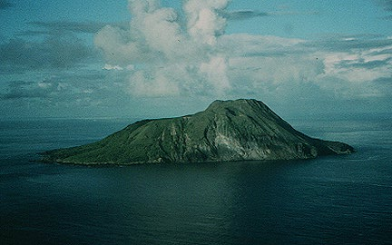 Aerial view of Sarigan Island in the Northern Mariana Islands